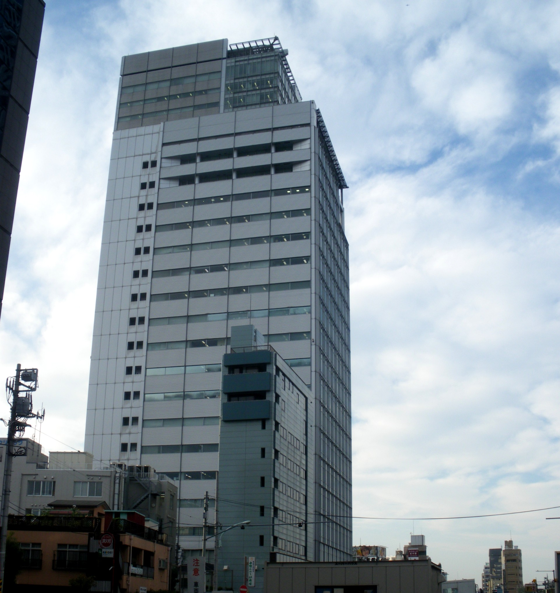 Nakanosakaue Central Building(Honcho,Nakano,Tokyo)